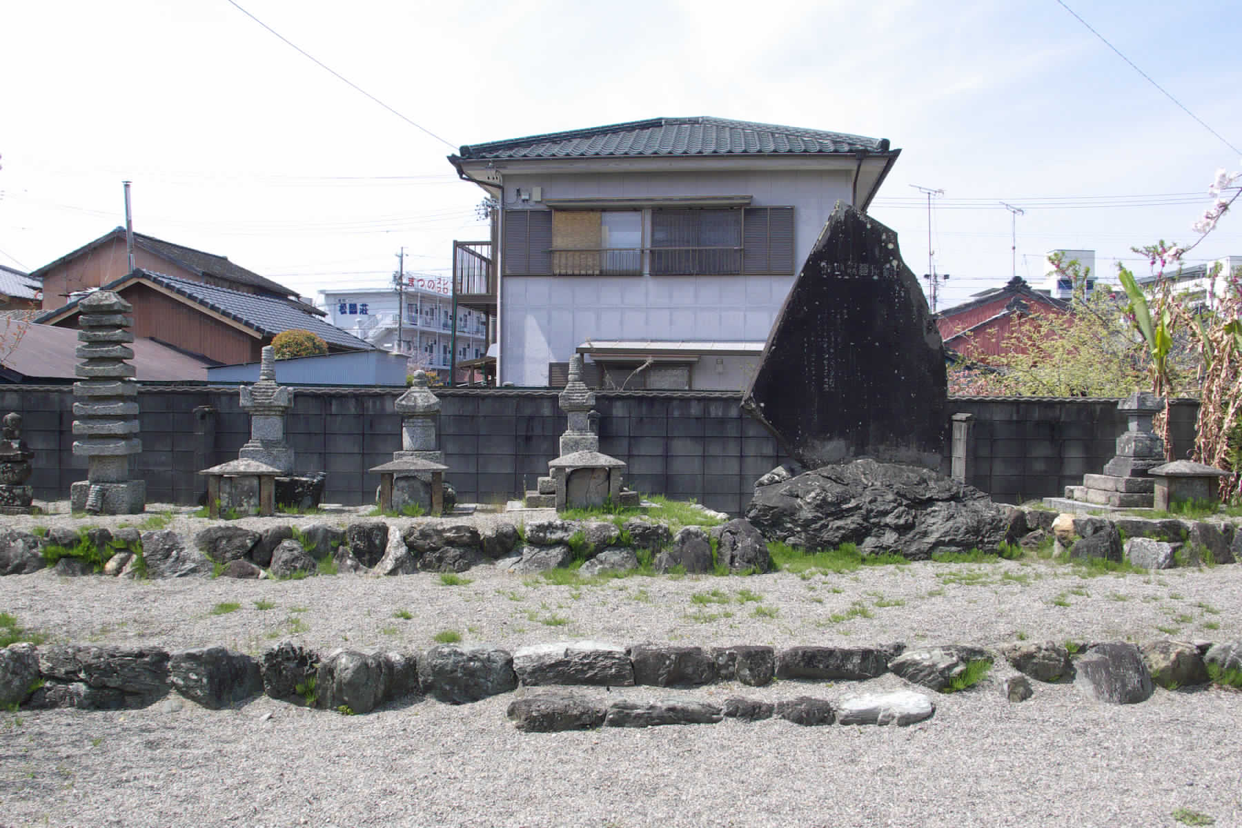 The tonbstone for Yuuki Munemasa at Koumyouji temple, Ise, Mie, japan.